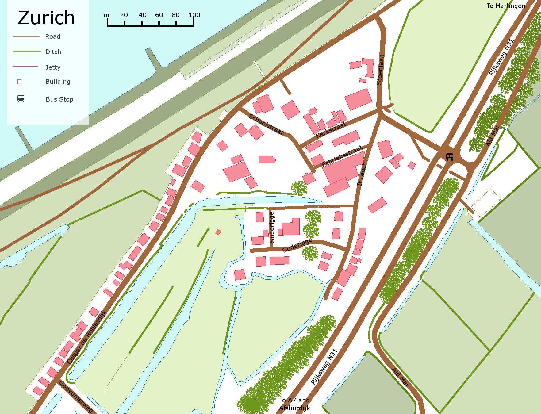 Map of Zurich Friesland Netherlands showing streets and buildings